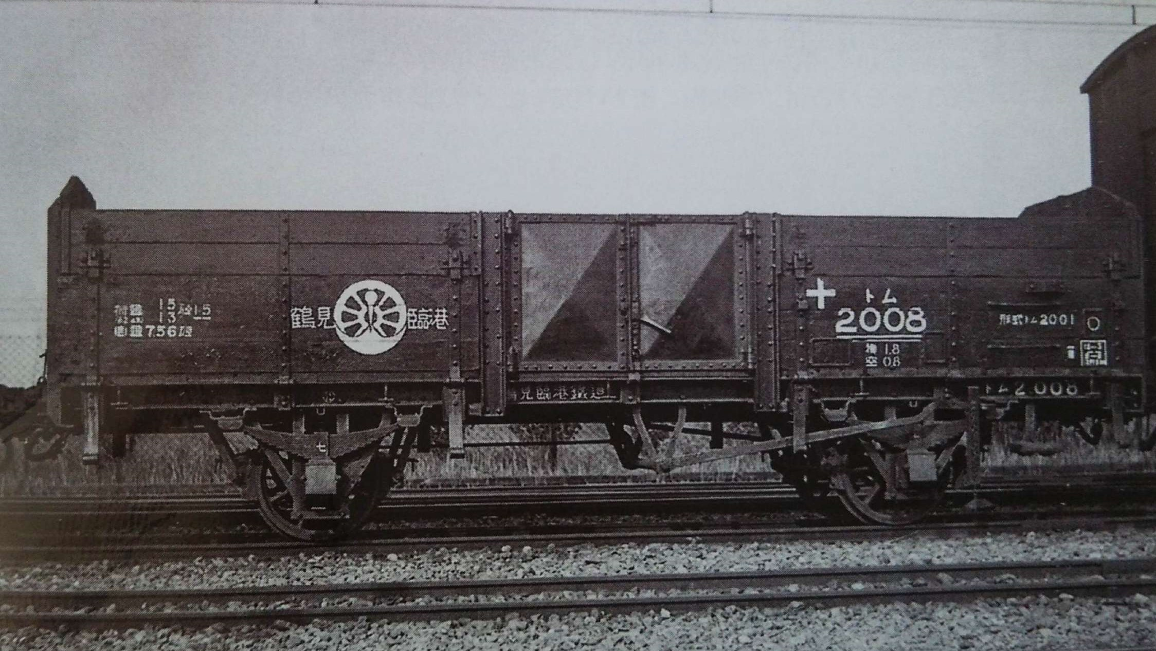 Tsurumi Rinko Railway ToMu 2001 wagon number ToMu 2008